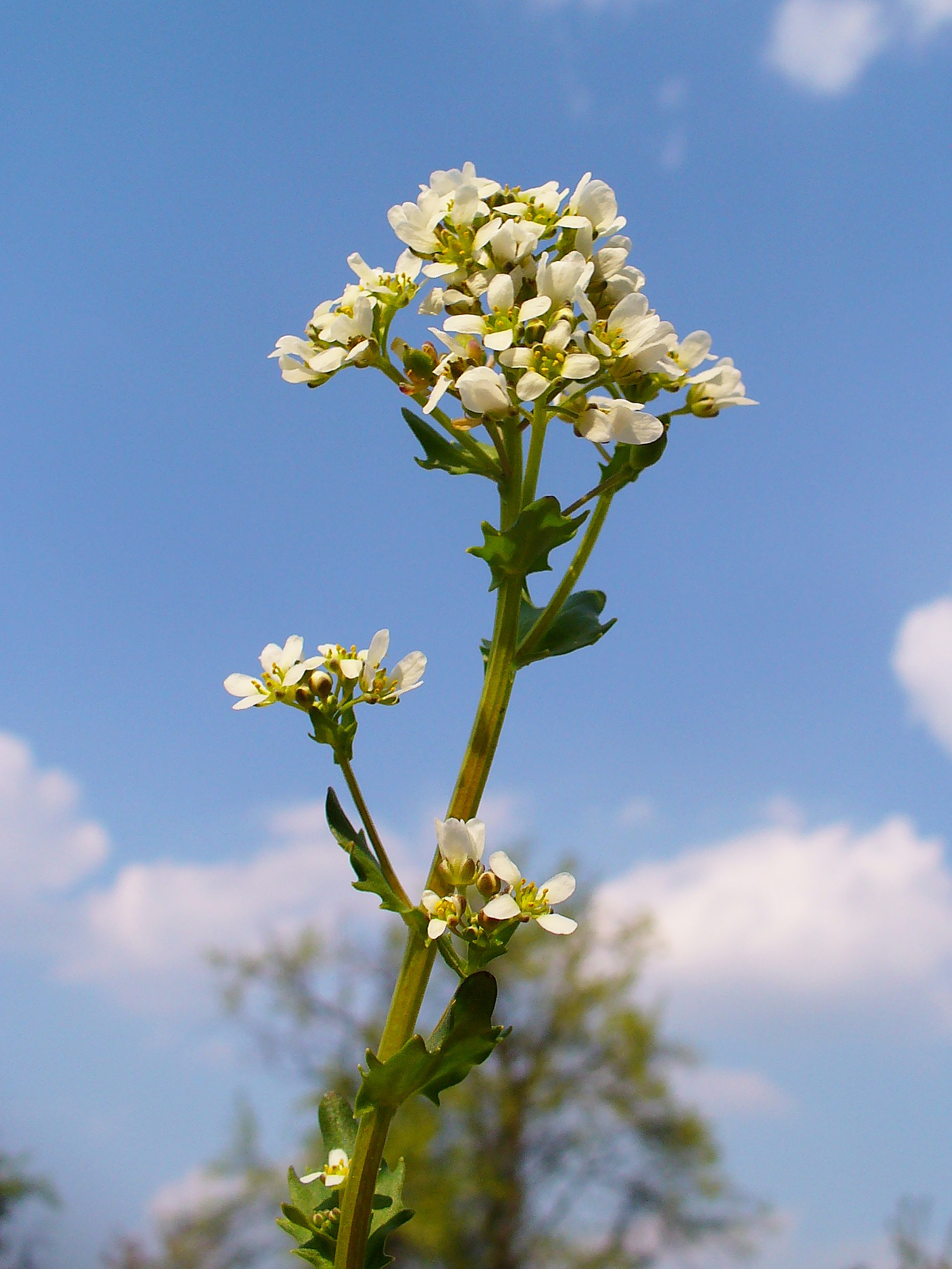 Cochlearia officinalis, Brassicaceae, Common Scurvygrass, inflorescence. The aerial parts of the blooming plant are used in homeopathy as remedy: Cochlearia officinalis (Coch-o.)